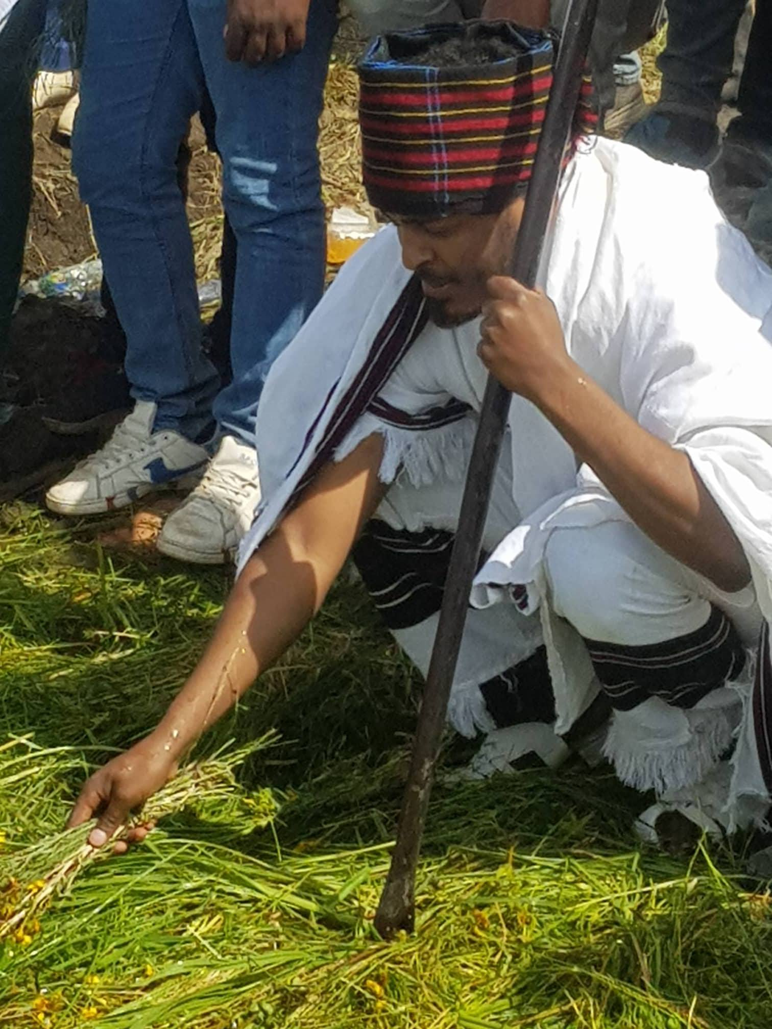 Irrecha celebration: Thanksgiving to Waaqa